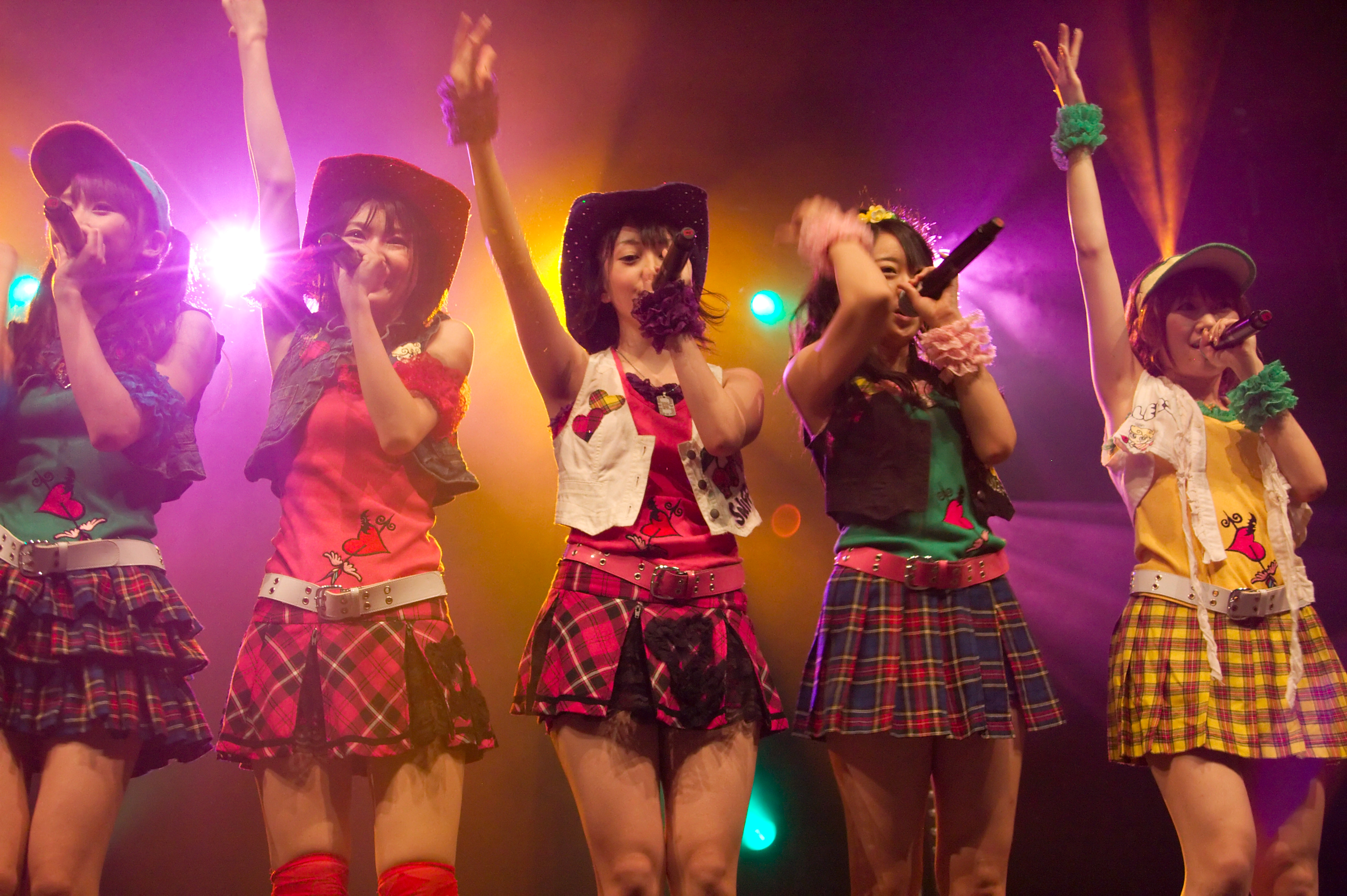 AKB48 live at Japan Expo 2009 (Paris, France).